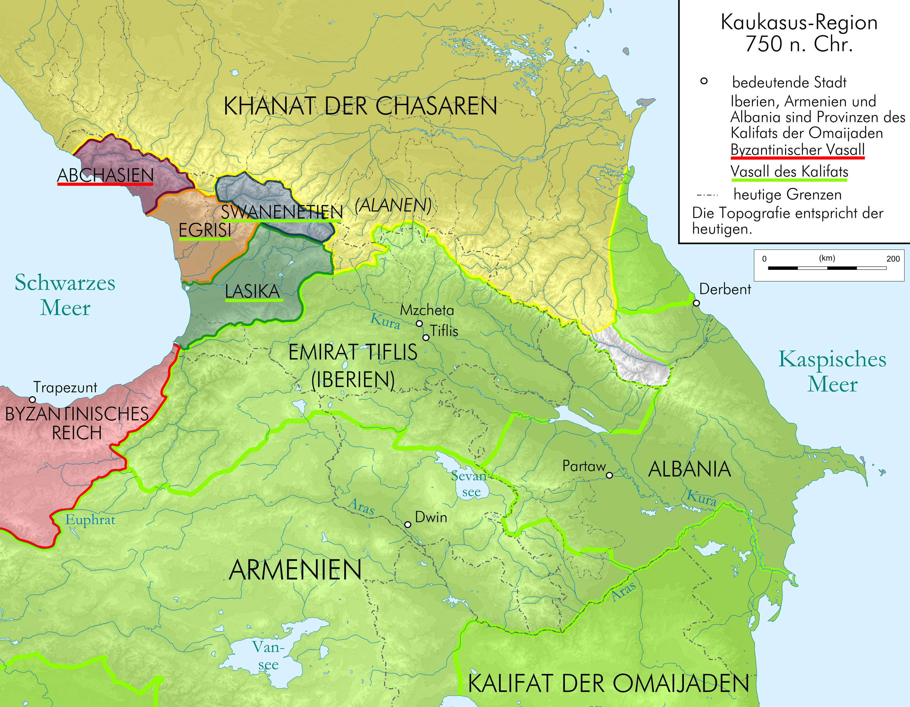 Map of Caucasus Region around 750 AD in German.